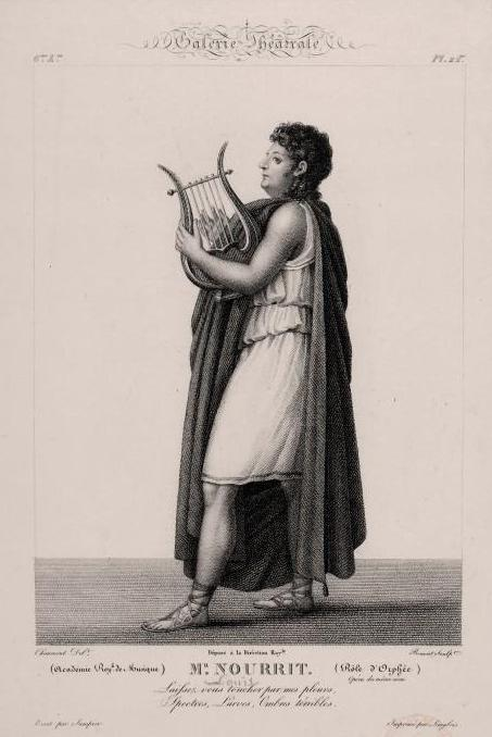 A drawing of the Occitan tenor Loís Noirit as Orpheus